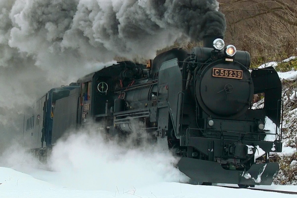 JR East Class C58 steam locomotive number C58 239 on a test run with the SL Ginga diesel trainset on the Kamaishi Line between Hariyama and Iwanebashi stations